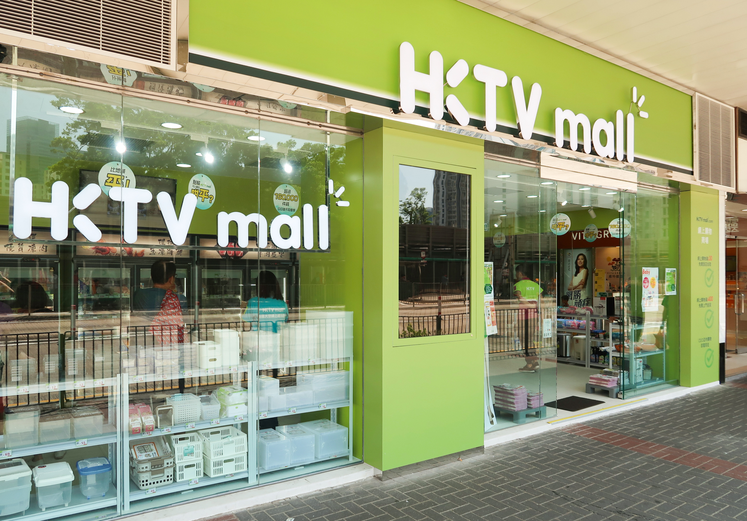 HKTV Mall in Amoy Plaza